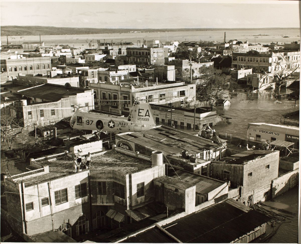 (blurb from NHHS) A U.S. Navy helicopter from the U.S. carrier Saipan prepares to hoist people from Tampico, Mexico stranded on a rooftop by flood waters from Hurricane Janet aboard and take them to a relief station